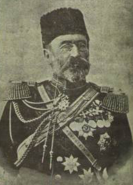 Mozaffar Pacha, 6th Mutasarrif of Mount Lebanon Mutasarrifate (1902-1907)